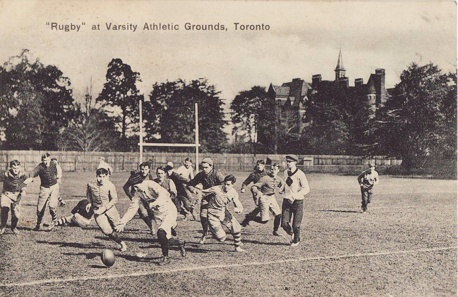 Rugby at Varsity Athletic Grounds, Toronto, Canada.